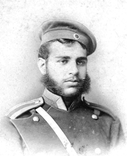 Иван Александрович Торлецкий около 1880 года